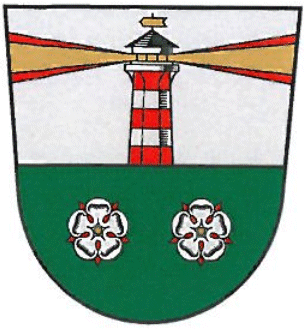 Coat of arms of the municipality Grünendeich in Lower Saxony, Germany.